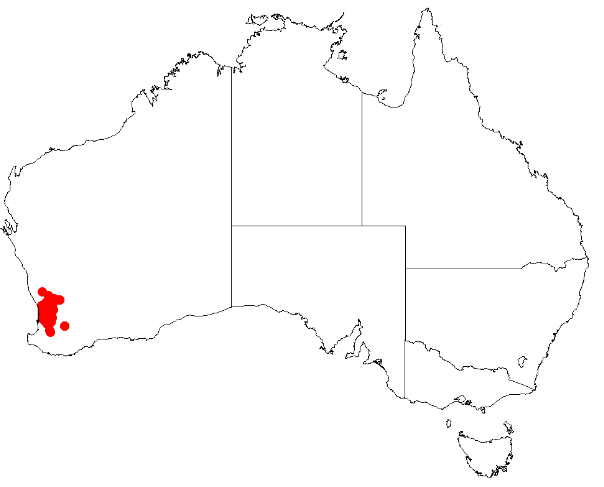 Conostylis caricina occurrence data from AVH on 12 May 2017